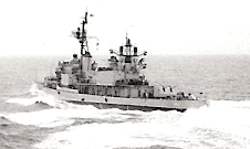 The U.S. Navy destroyer USS Higbee (DD-806) pulling away from the guided missile cruiser USS Chicago (CG-11), not visible, circa in 1970.